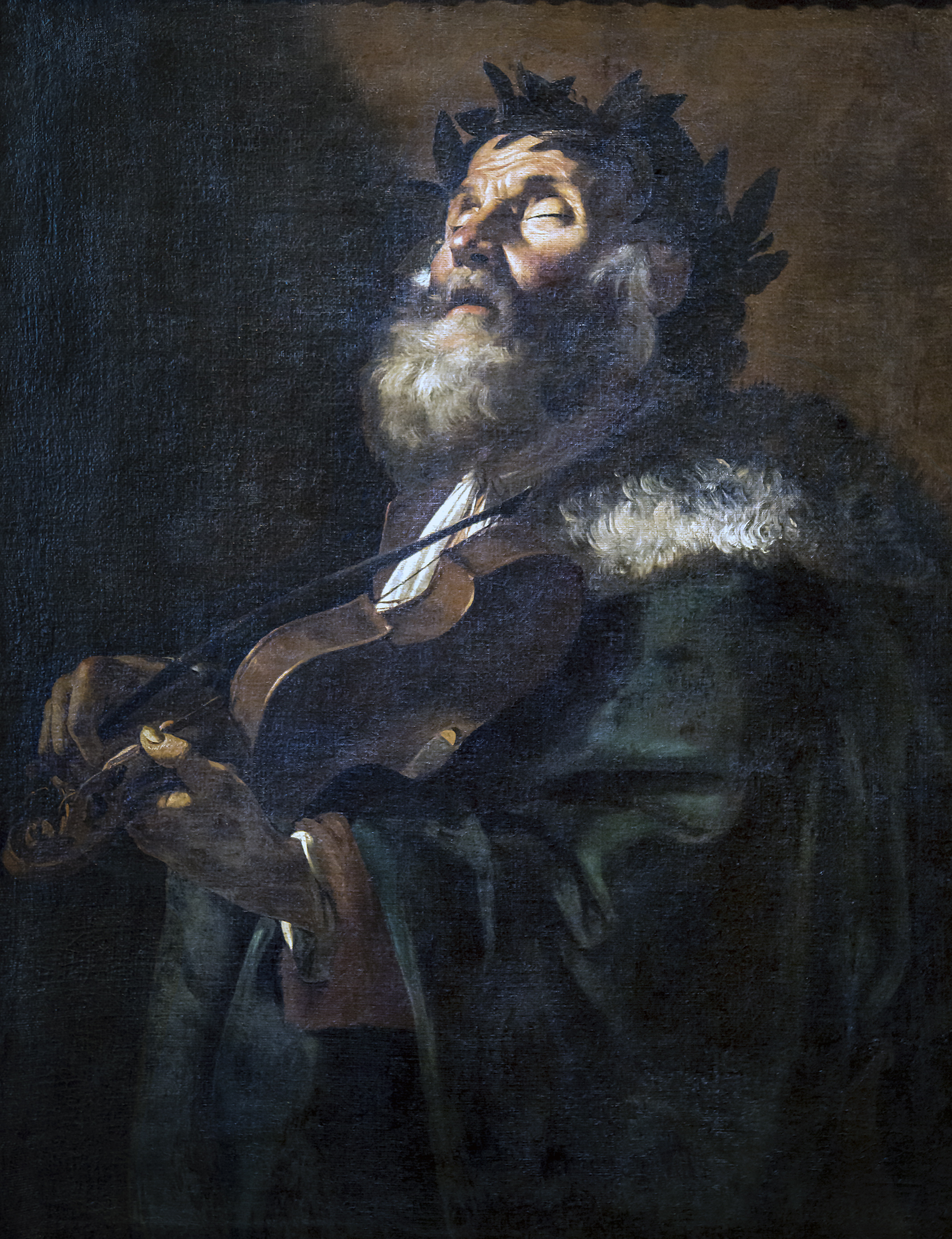 Homer by Mattia Preti (1635), Gallerie dell'Accademia in Venice. Oil on canvas. Purchase 1821 Size : 102 × 81 cm Inventory number: Cat.59